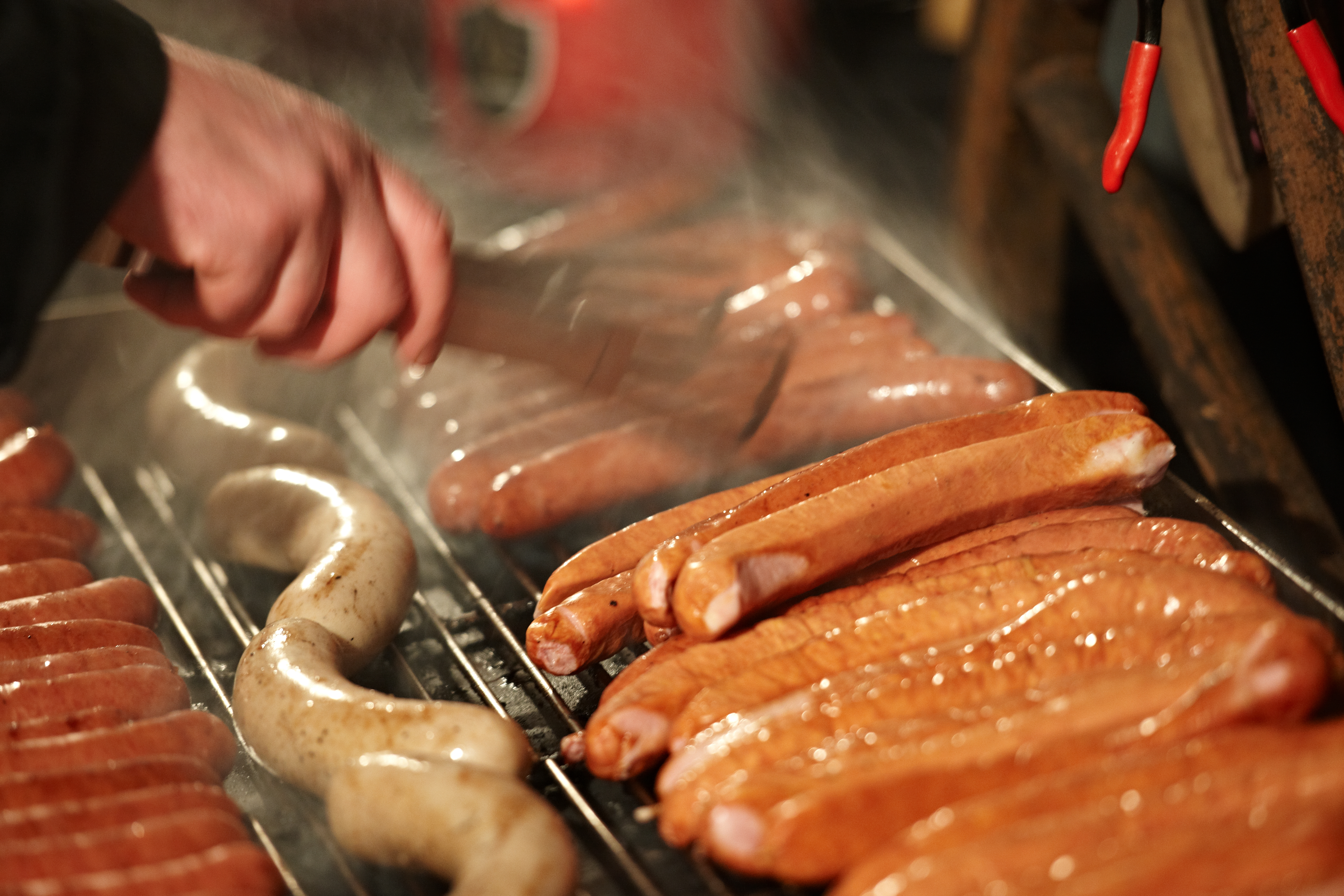 Sausages on a Barbecue in Osloo. 1/25 handhold, thanks to VR II